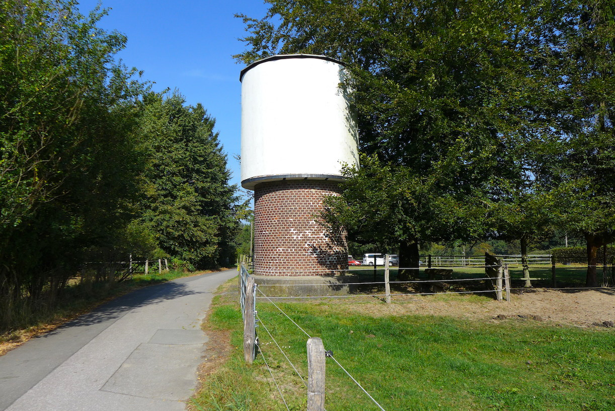 "Blade track" - the tourist marked route around the German city of Solingen (Northern Rhine-Westphalia). 4th stage: around a reservoir of Sengbachtalsperre. 9,0 km.